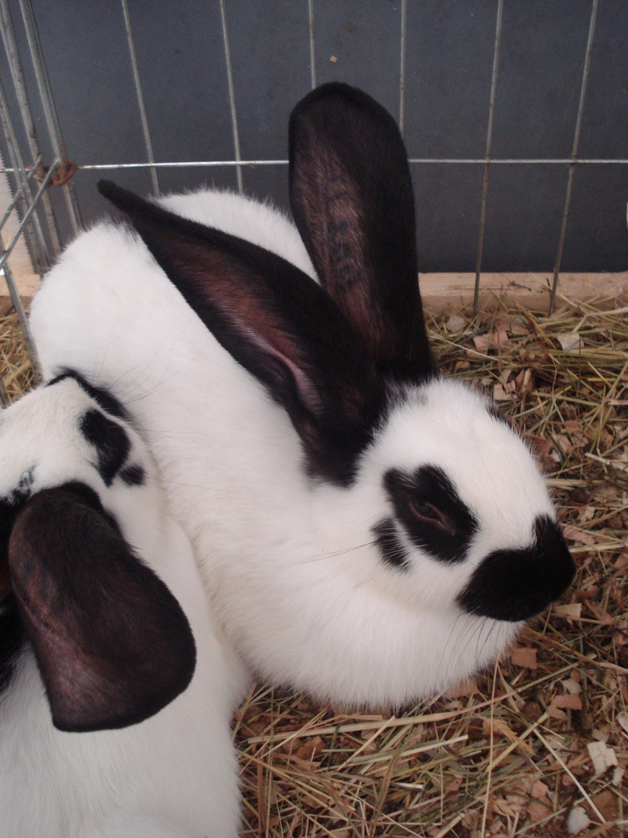 Rabbit -German Checkered Giant, exhibited at MESAP 2011. trade fair in Nedelišće, Medjimurje County, Croatia